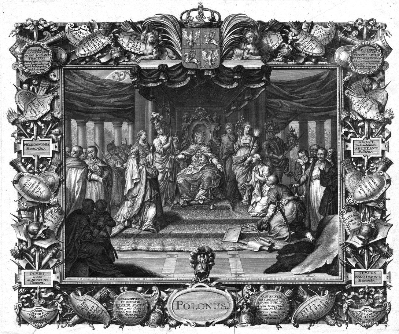 Allegory of Poles